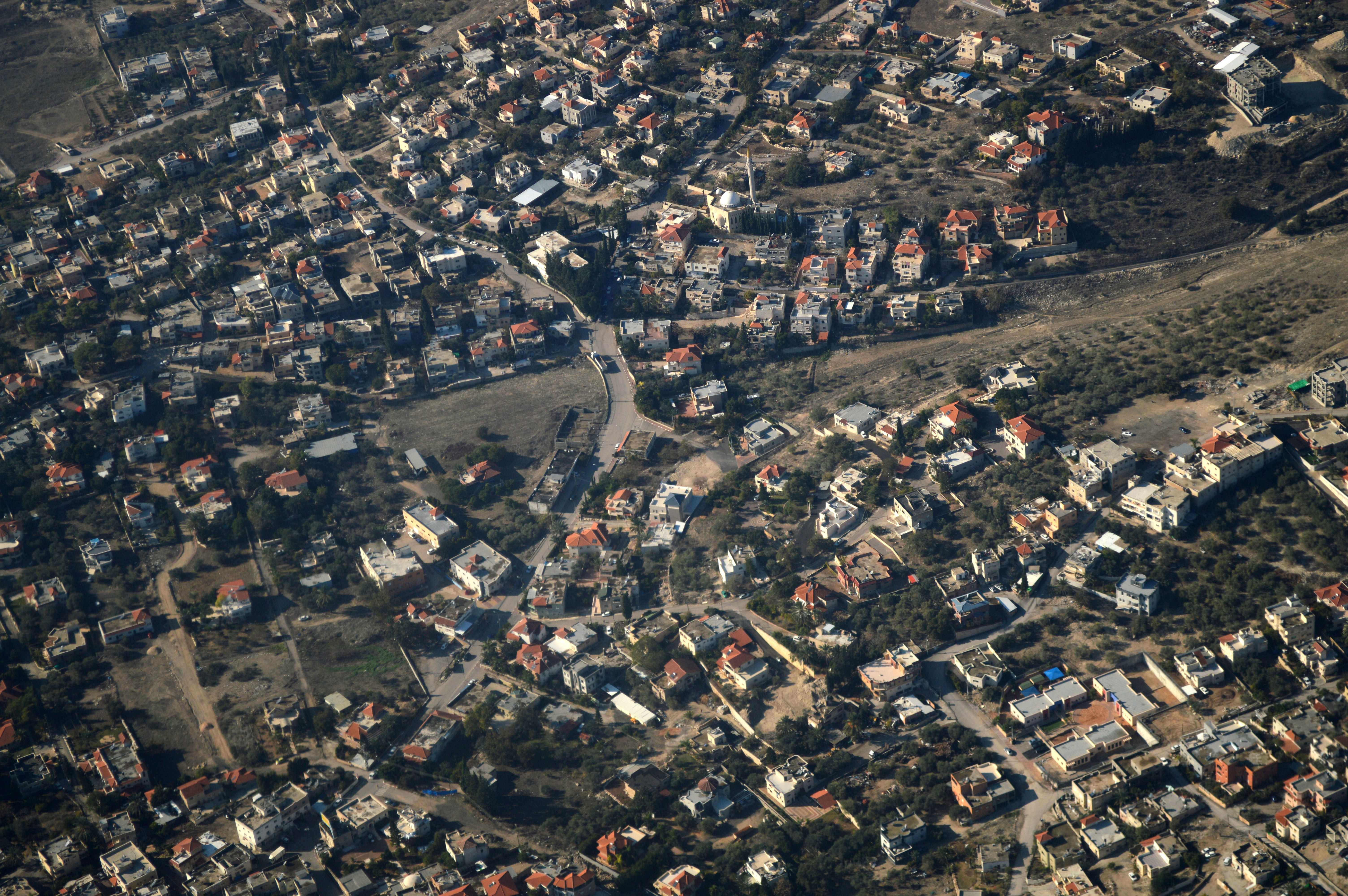 Aerial View of Israel